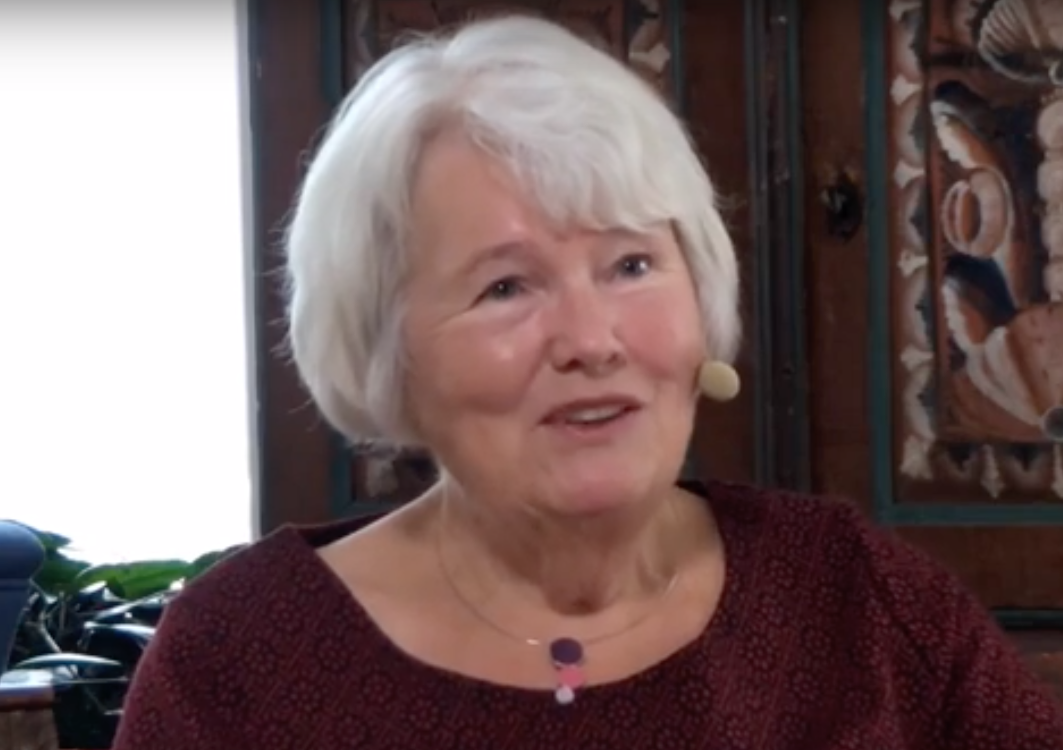 Ann-Marie Nilsson, Swedish programmer and government official. Screenshot from a video interview made by Internetmuseum.